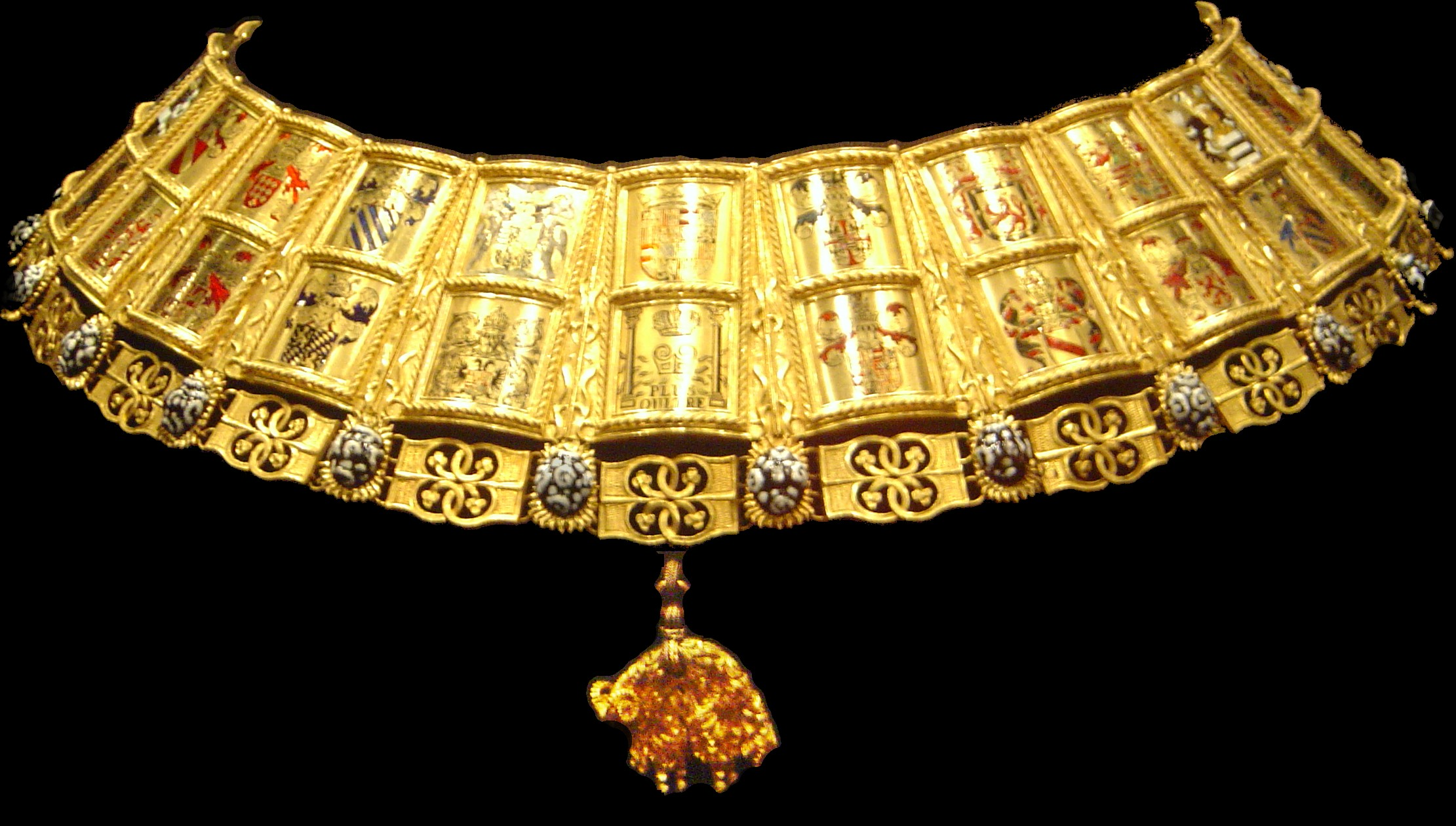 Insignia of the herald of the Order of the Golden Fleece